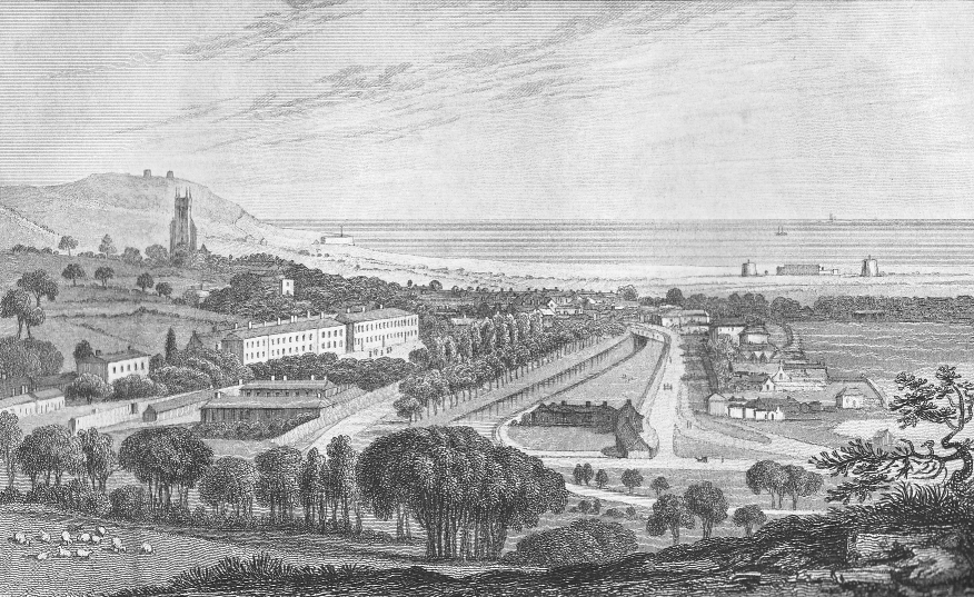 Engraving of "The Barracks and Town of Hythe, Kent" from Ireland's History of Kent, Vol. 4, 1831. It appears between pages 224 and 225. Drawn by G. Sheppard, engraved by C. Bedford.